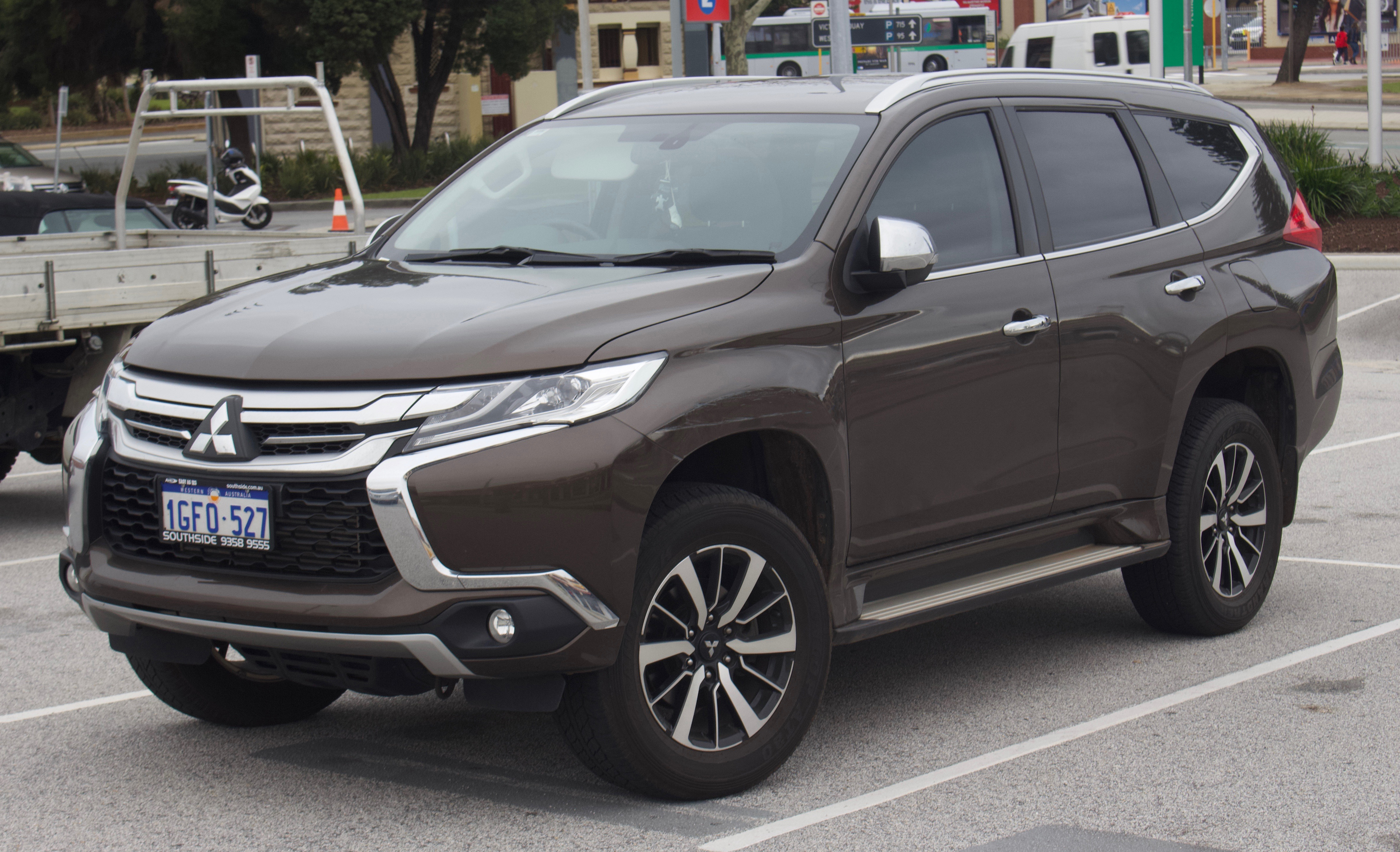 2017 Mitsubishi Pajero Sport (QE) GLS wagon. This is the GLS due to the absence of headlight washers. Photographed in Fremantle, Western Australia, Australia.